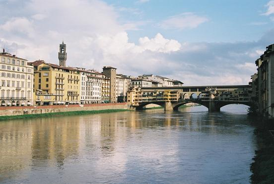 Arno River in Florence, Italy